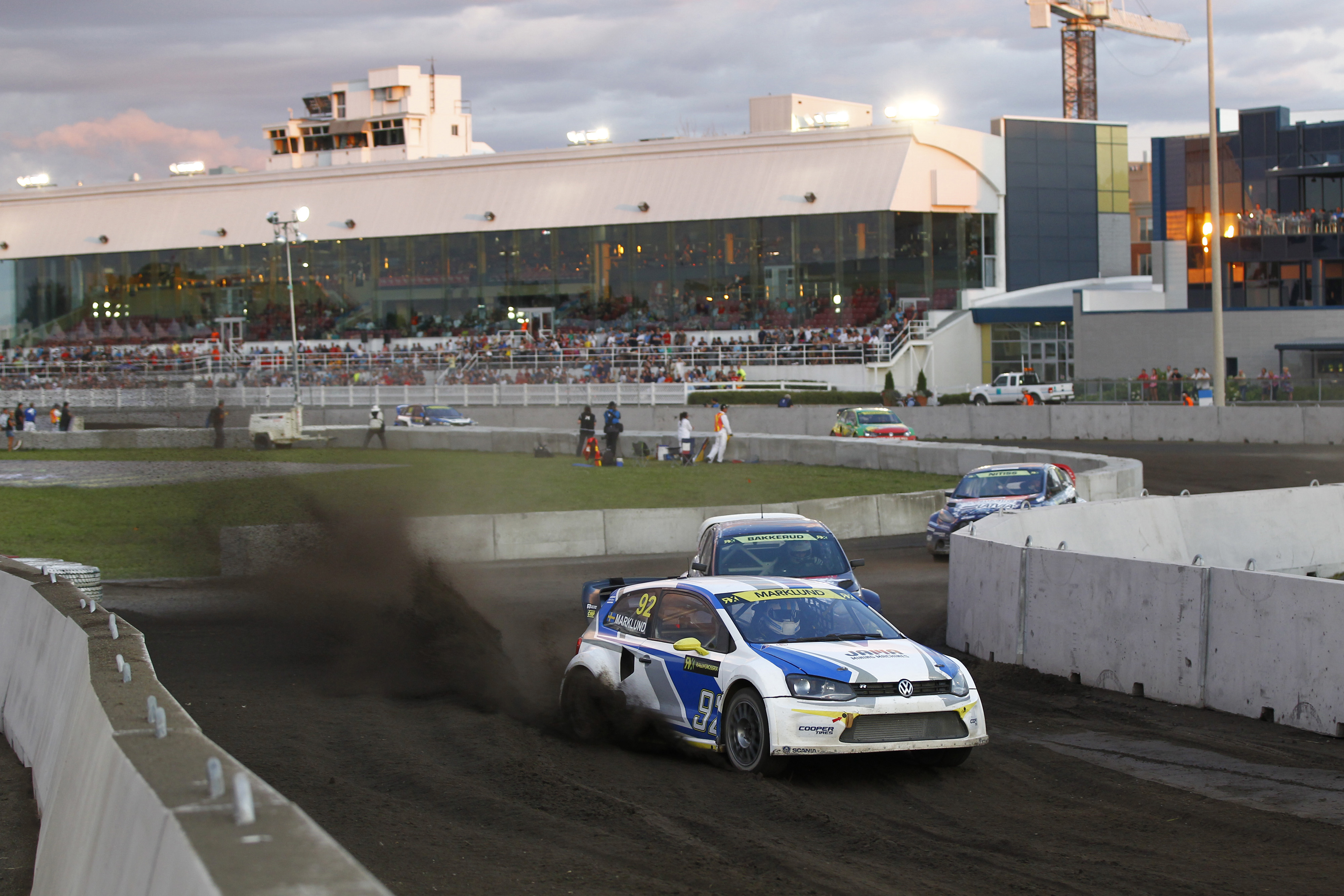 Swedish rallycross driver Anton Marklund in his VW Polo Supercar. Round 7 of the 2014 FIA World Rallycross Championship at Circuit Trois-Rivières, Canada.